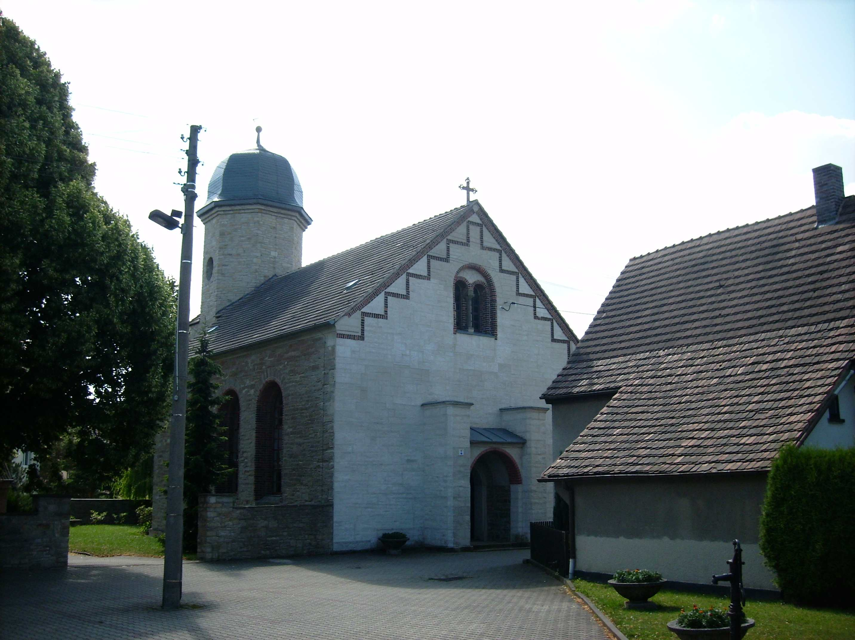 Church of the village of Geussnitz (Zeitz, district of Burgenlandkreis, Saxony-Anhalt) where the marriage of the parents of the composer Robert Schumann took place